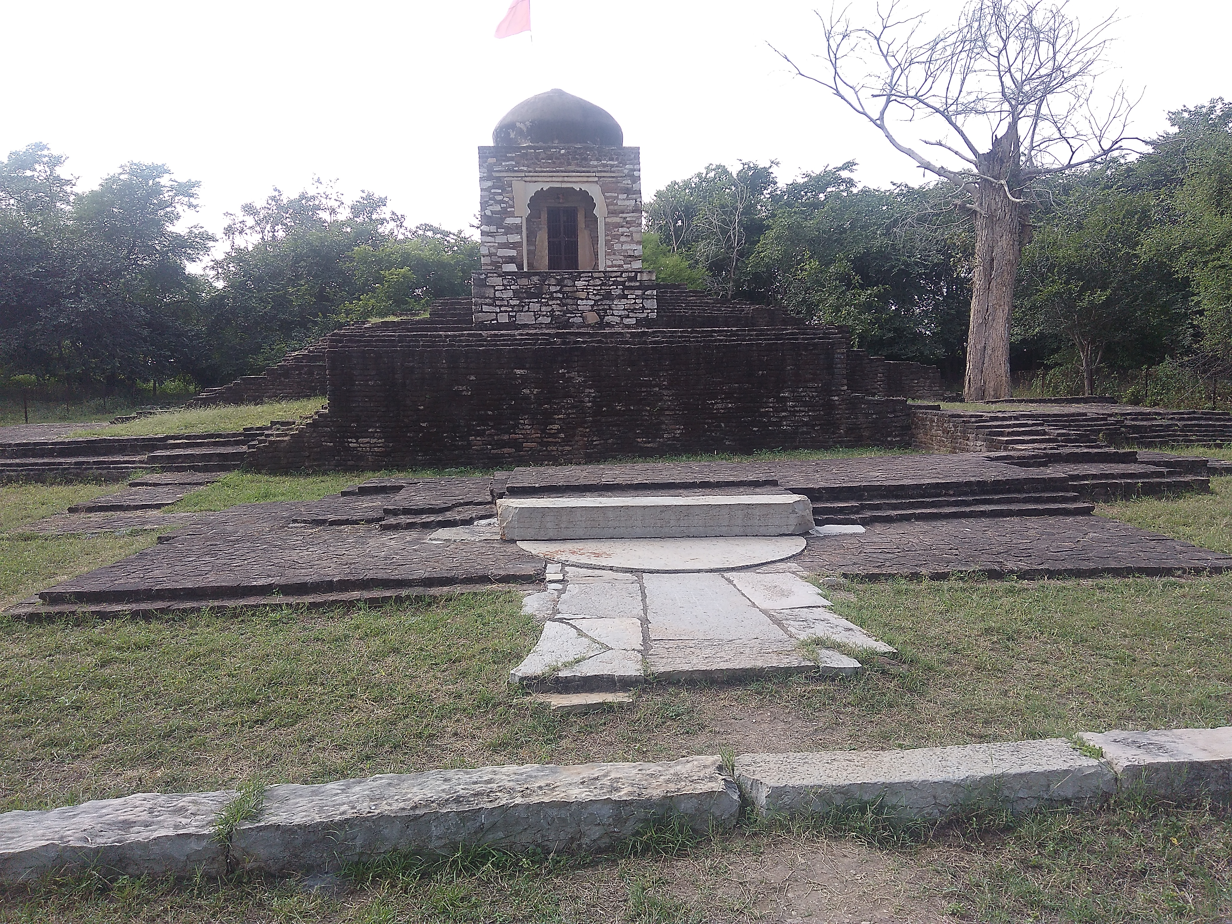 Ancient site and remains together with adjacent area comprised in whole of survey no.2 : 991,992,993,994/1,994/3, 995,996,997,998,999,1000 and 1002.